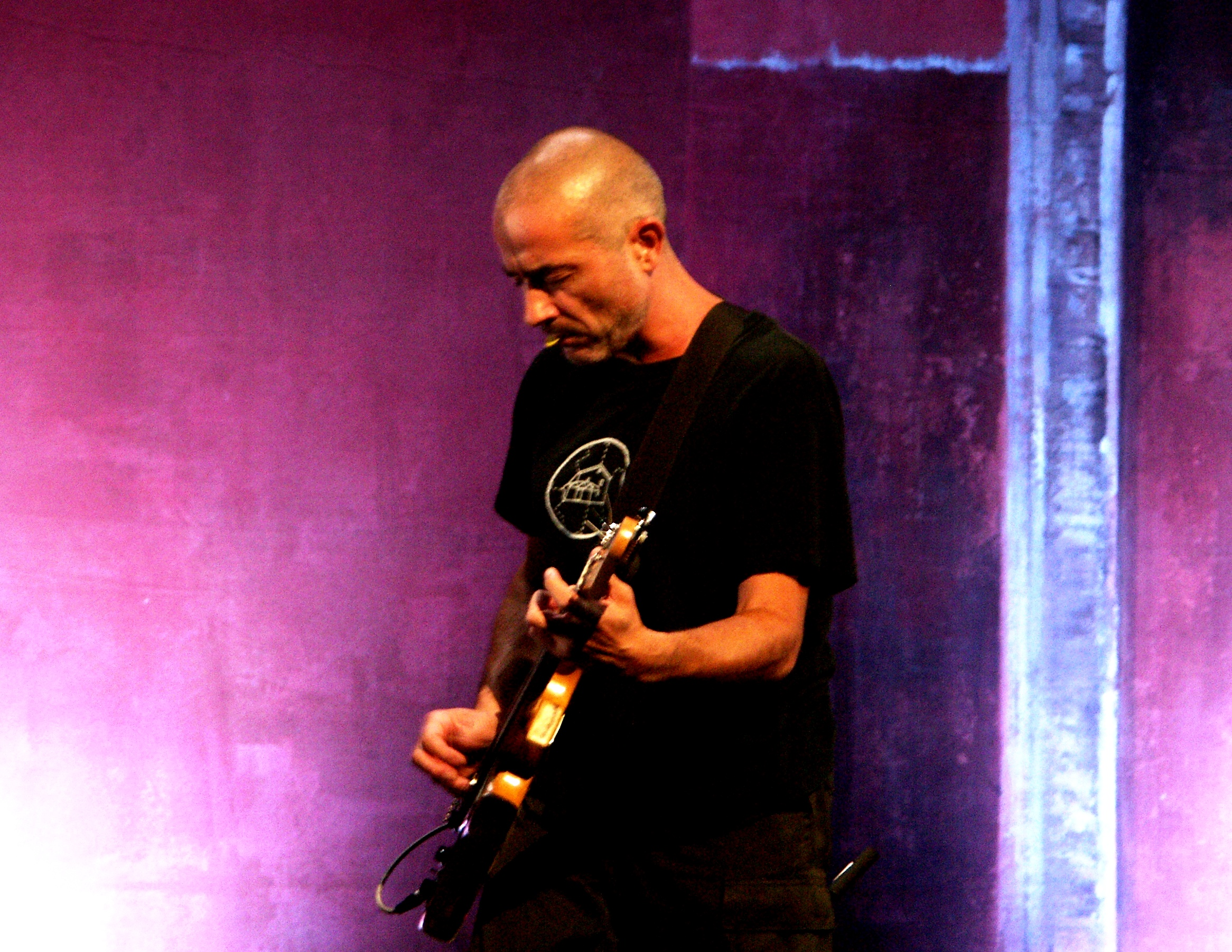 Serge Teyssot-Gay en concert avec le groupe La Rumeur àToulouse en 2005